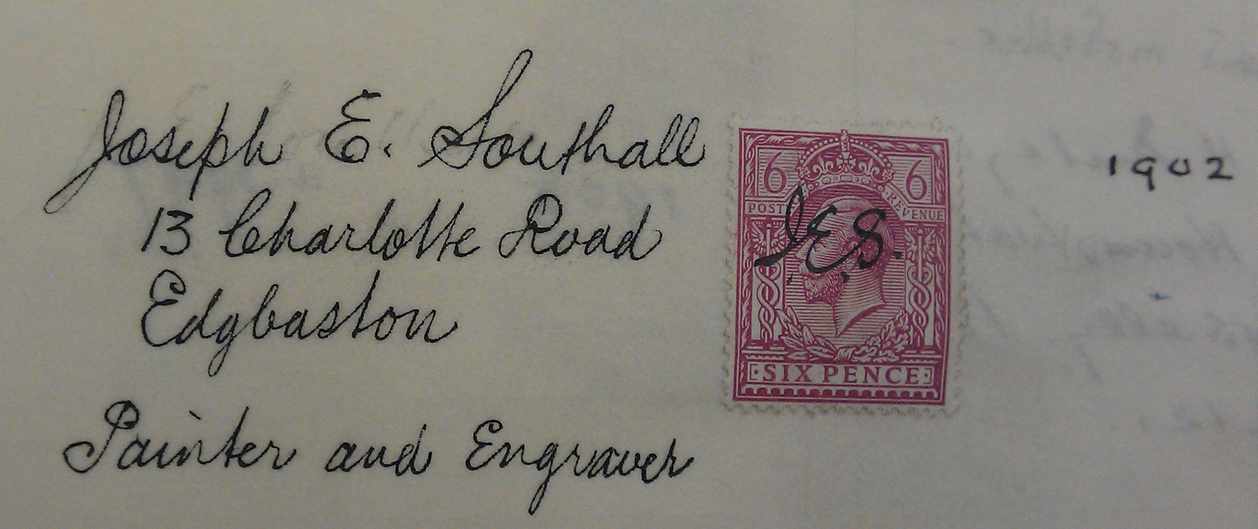 Joseph Southall's entry in the Royal Birmingham Society of Artists members' register; in his own hand. Reads: "Joseph E Southall, 13 Charlotte Road, Edgbaston, Painter and Engraver". Dated 1902, with a postage stamp initialled "JES".